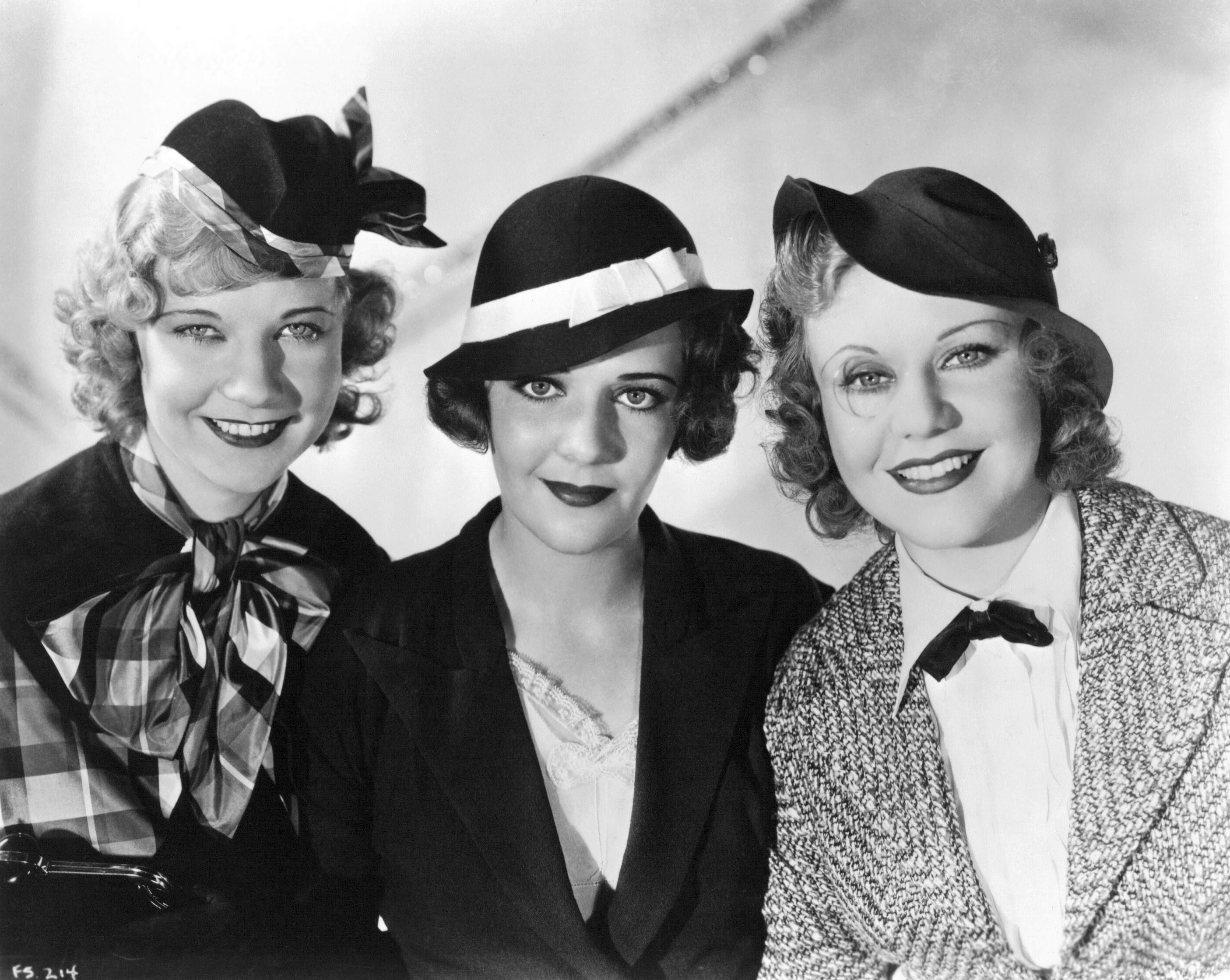 Promotional photograph for the film 42nd Street starring Una Merkel, Ruby Keeler and Ginger Rogers